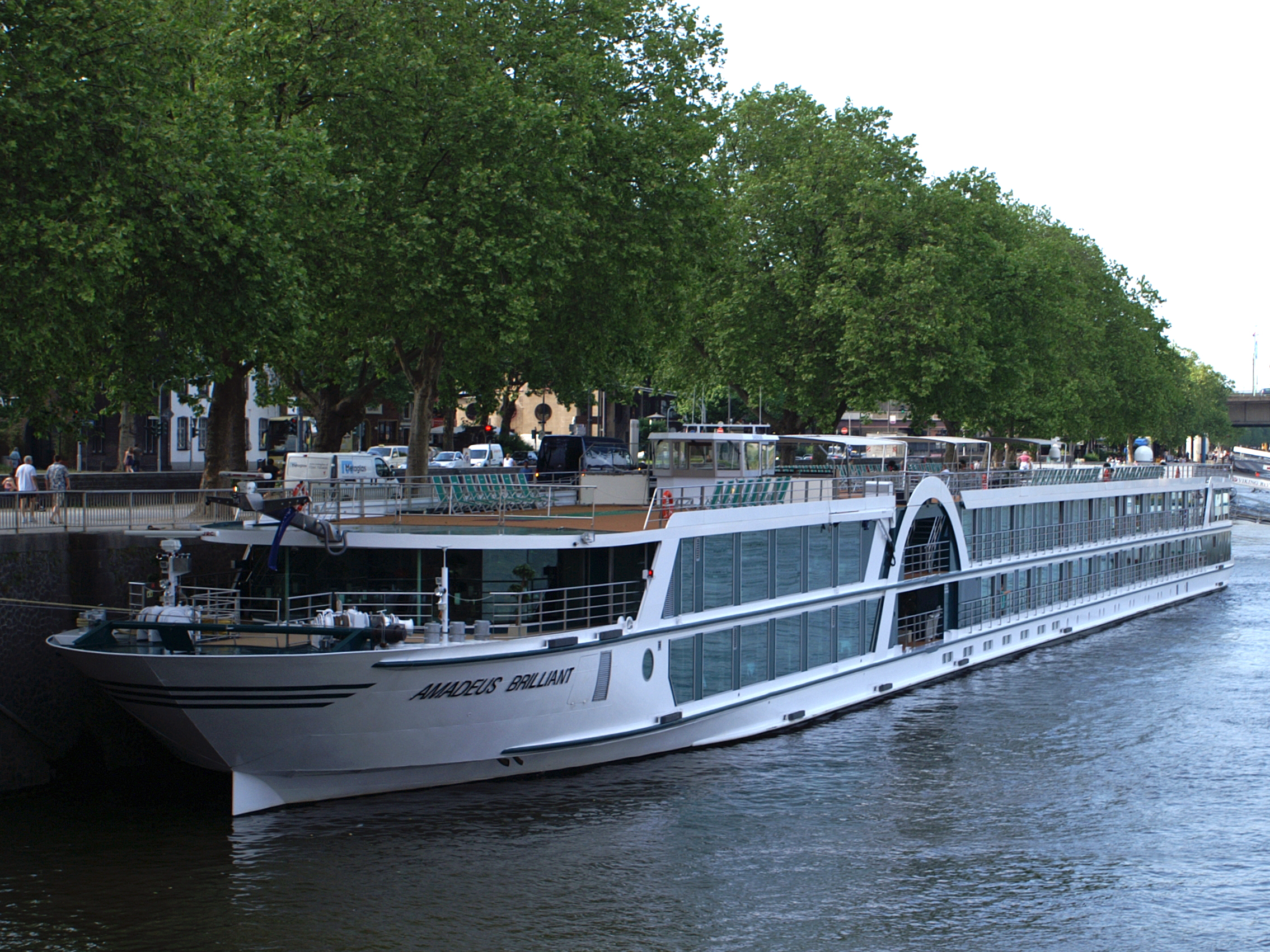 River cruise ship Amadeus Brilliant in Cologne.